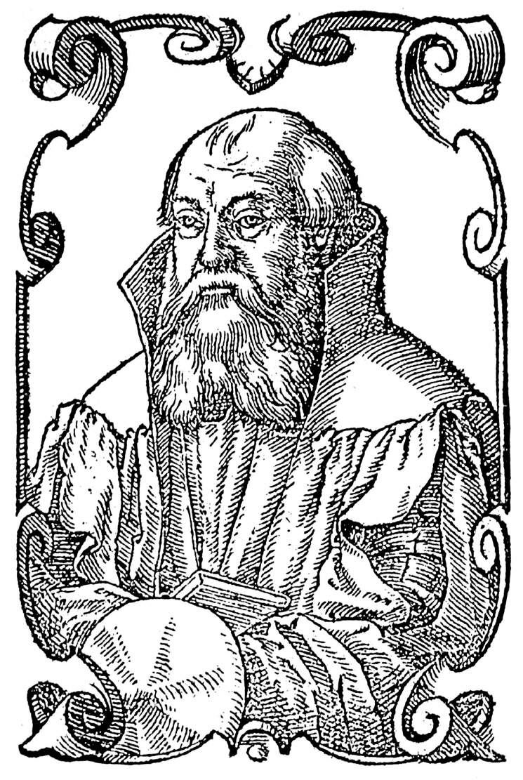 Adam Krafft (1493—1558), Professor of Protestant Theology, Reformer of Hesse, Superintendent. 16th century woodcut.